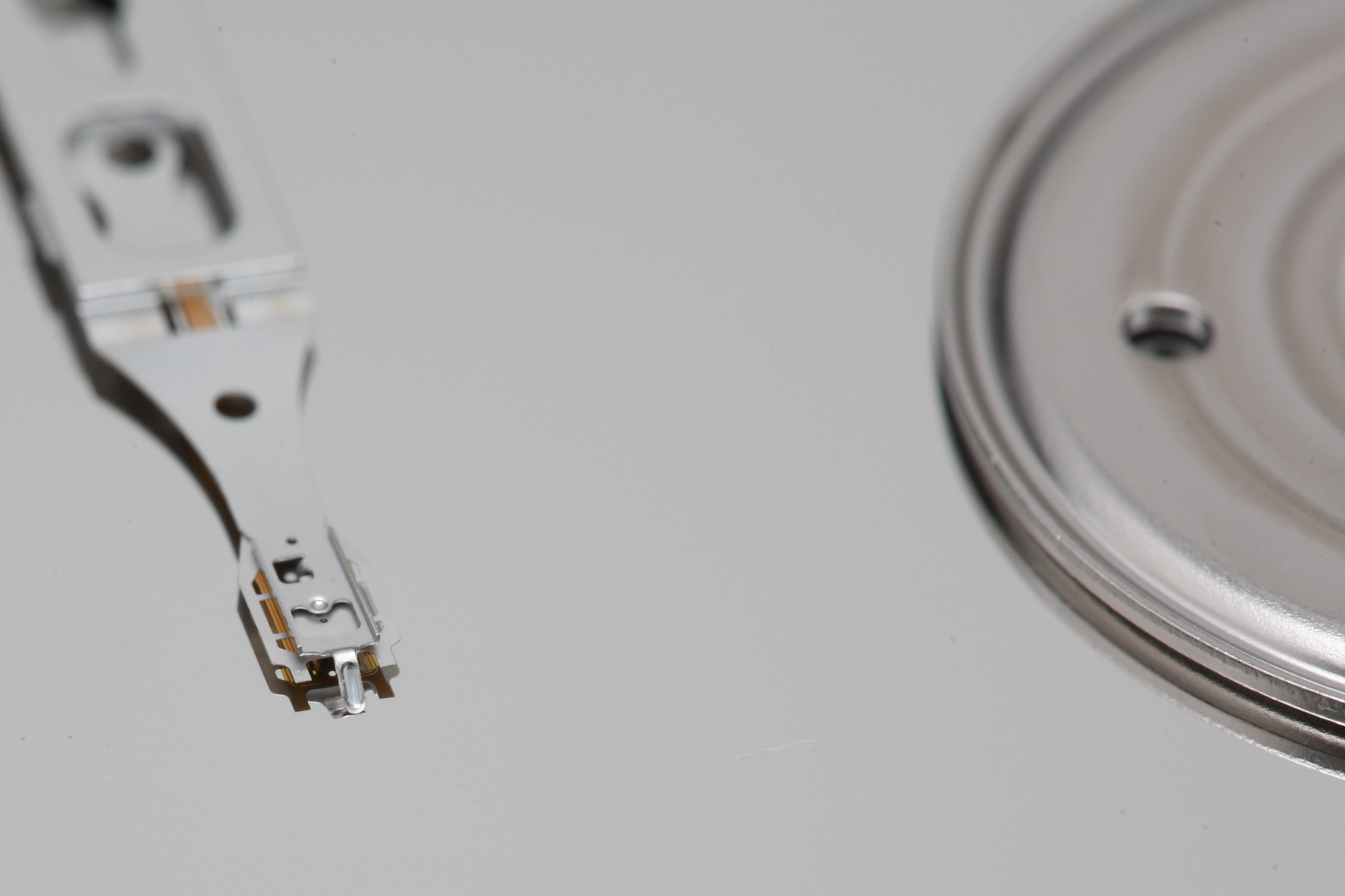 Toshiba HDD2189 2.5" hard disk drive platter and head. 1:1 macro.